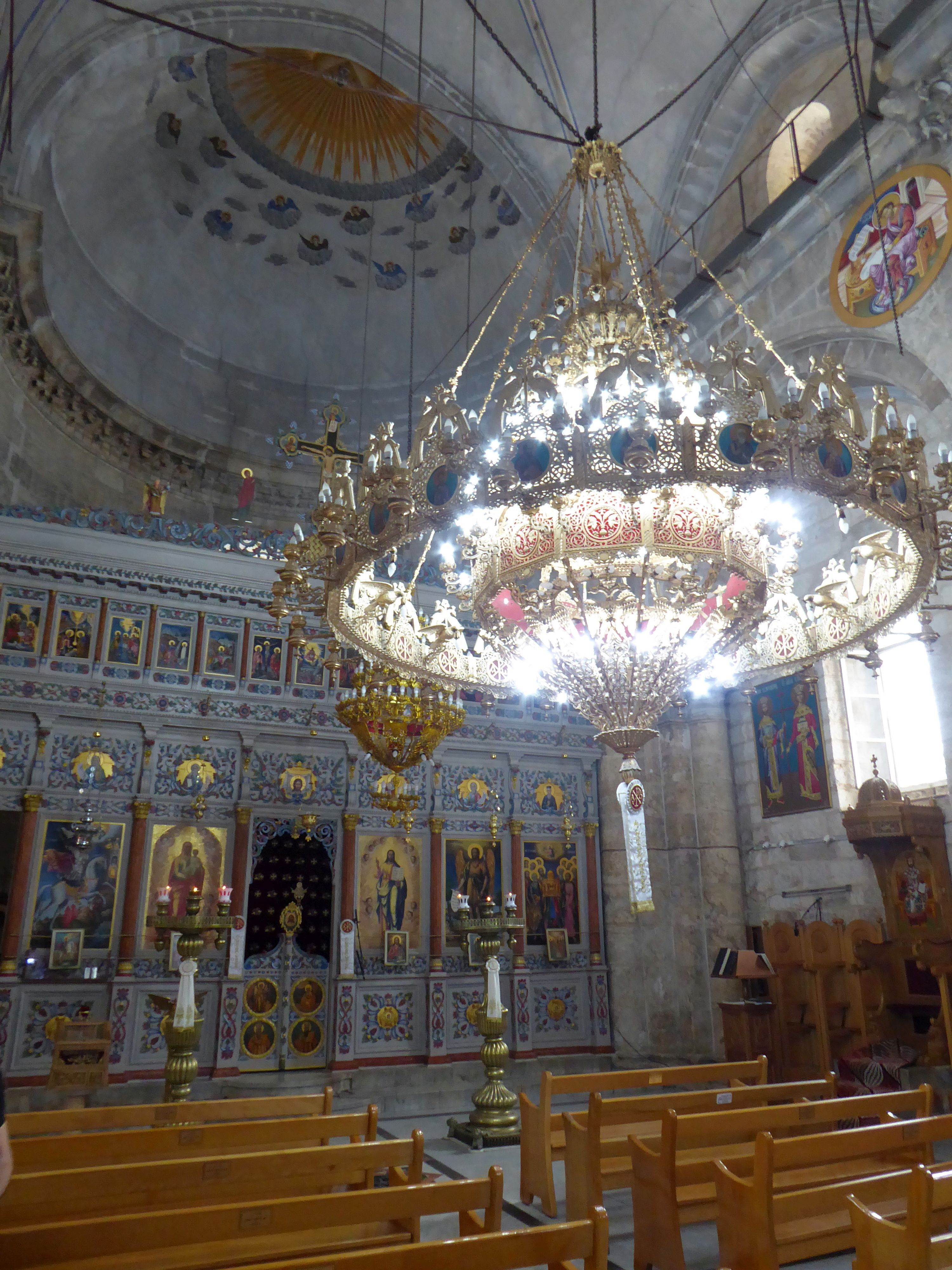 Interior of Saint George church in Lod